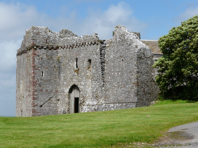 The west face of Weobley Castle. Weobley Castle is a fortified manor house on the Gower peninsula, Wales, UK in the care of Cadw.